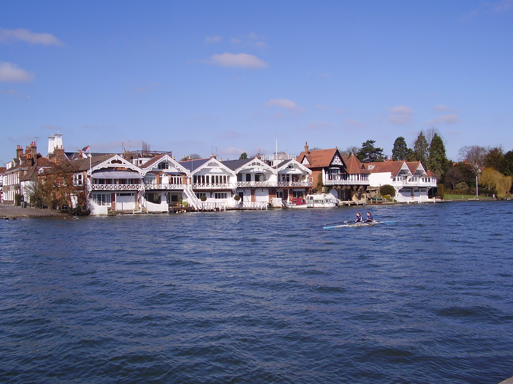 Henley on Thames, les bords de la Tamise